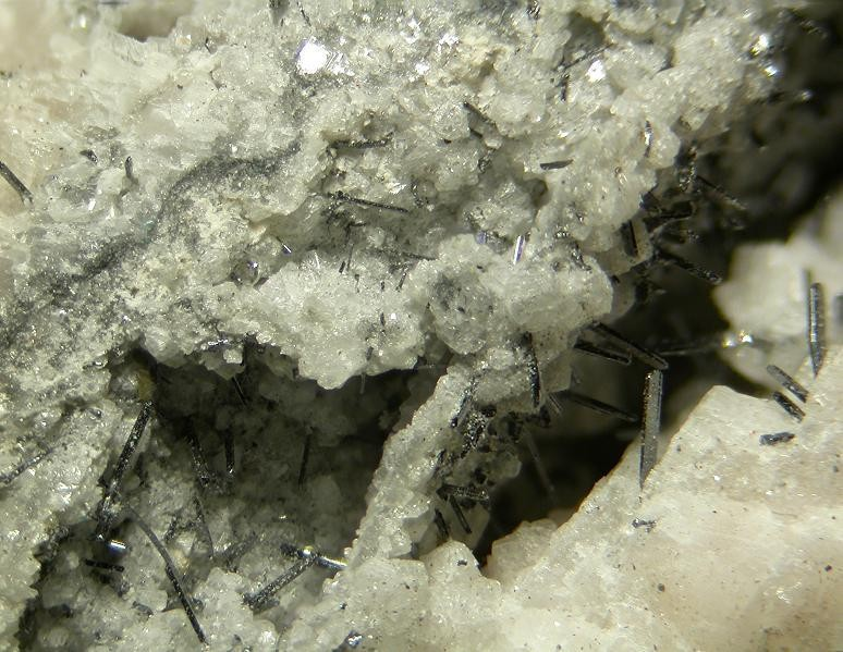 Imiterite Locality: Imiter Mine, Boumalne-Dadès, Ouarzazate Province, Souss-Massa-Draâ Region, Morocco (Locality at ) Field of view 5 mm. Specimen and photo Leon Hupperichs.